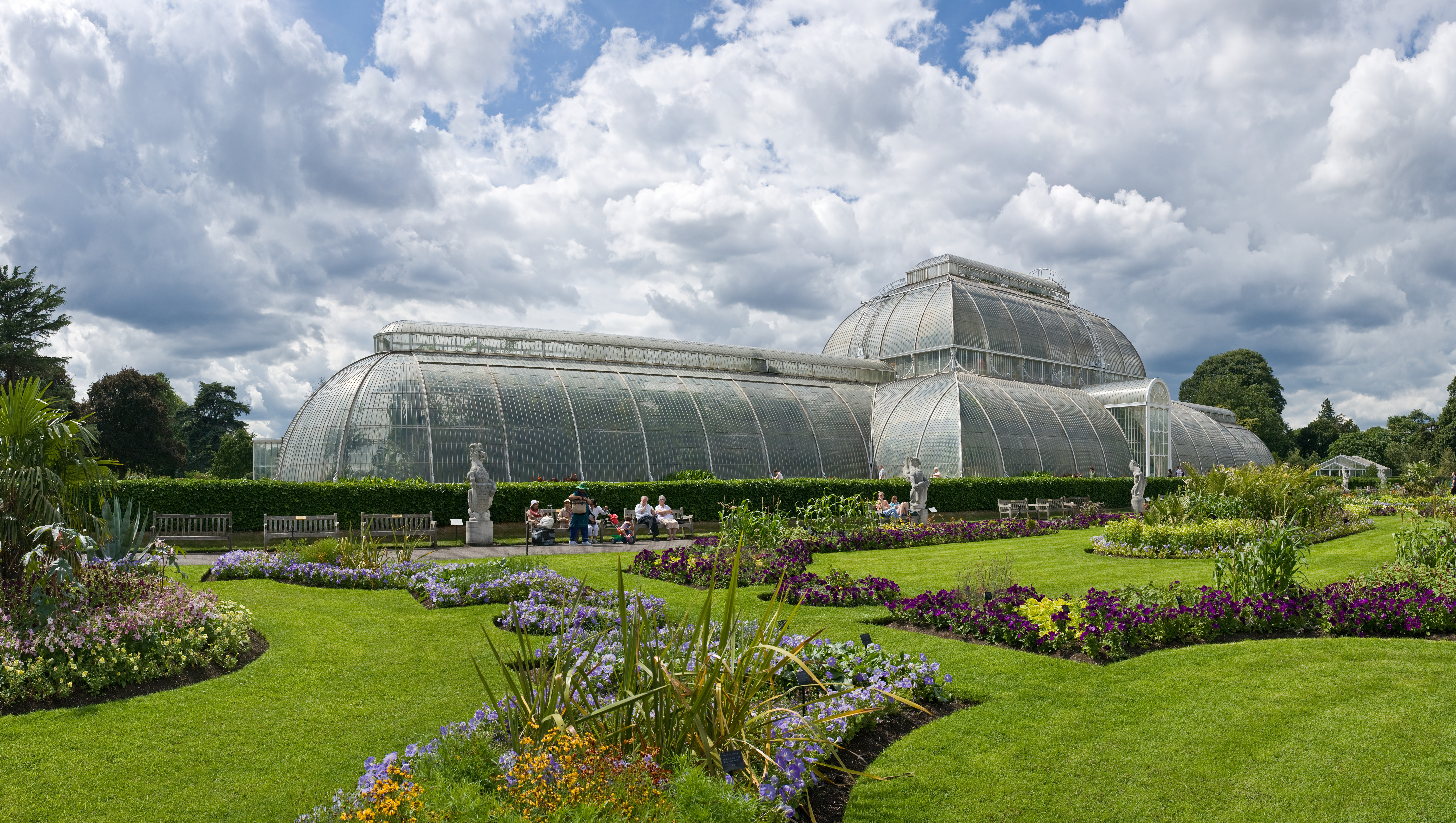 A view across the gardens to the Palm House in Kew Gardens, in London, England. This is a 4 segment panoramic image. Visible in the foreground of the palm house are some of the replicas of the Queen's Beasts: the Yale of Beaufort, the Red Dragon of Wales, the White Horse of Hanover, the Unicorn of Scotland, and the Griffin of Edward III.